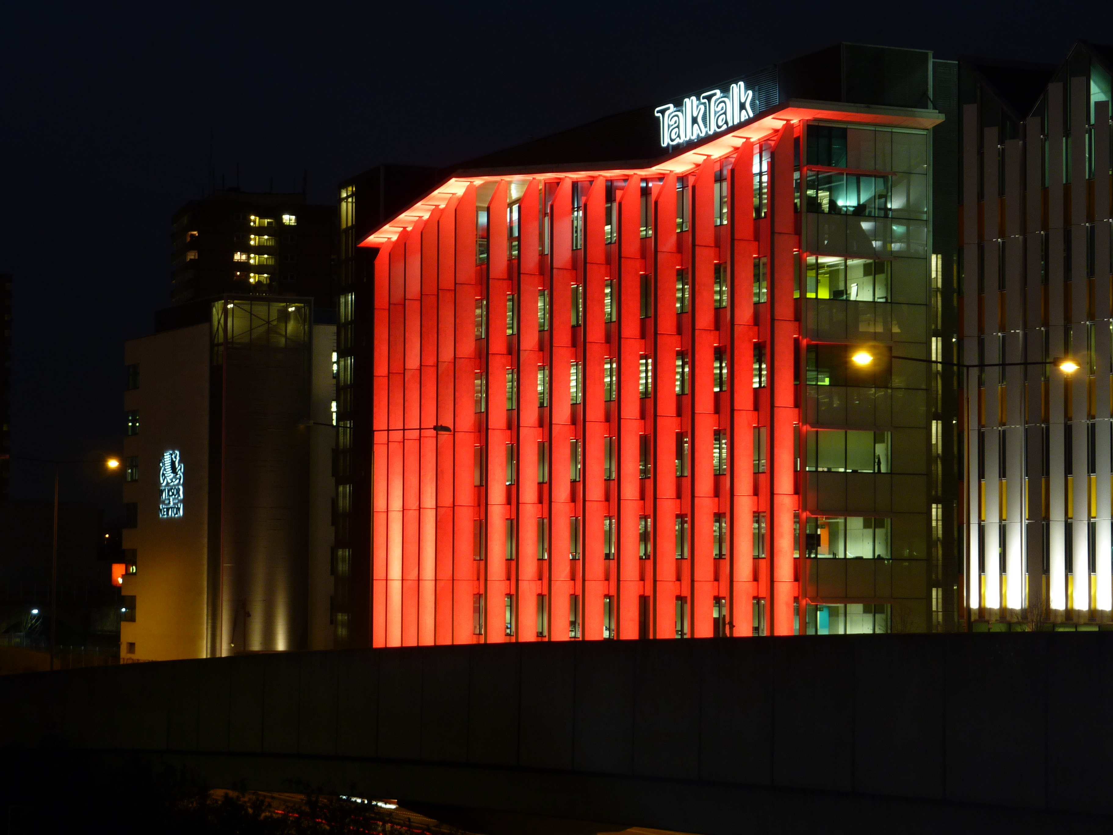 TalkTalk building at 11 Evesham Street, Hammersmith, London W11 4AR in West London. Lit with LEDs for The British Heart Foundation's National Wear Red Day in February 2012. Taken from the South West.